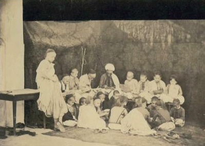 Arab school of Algiers